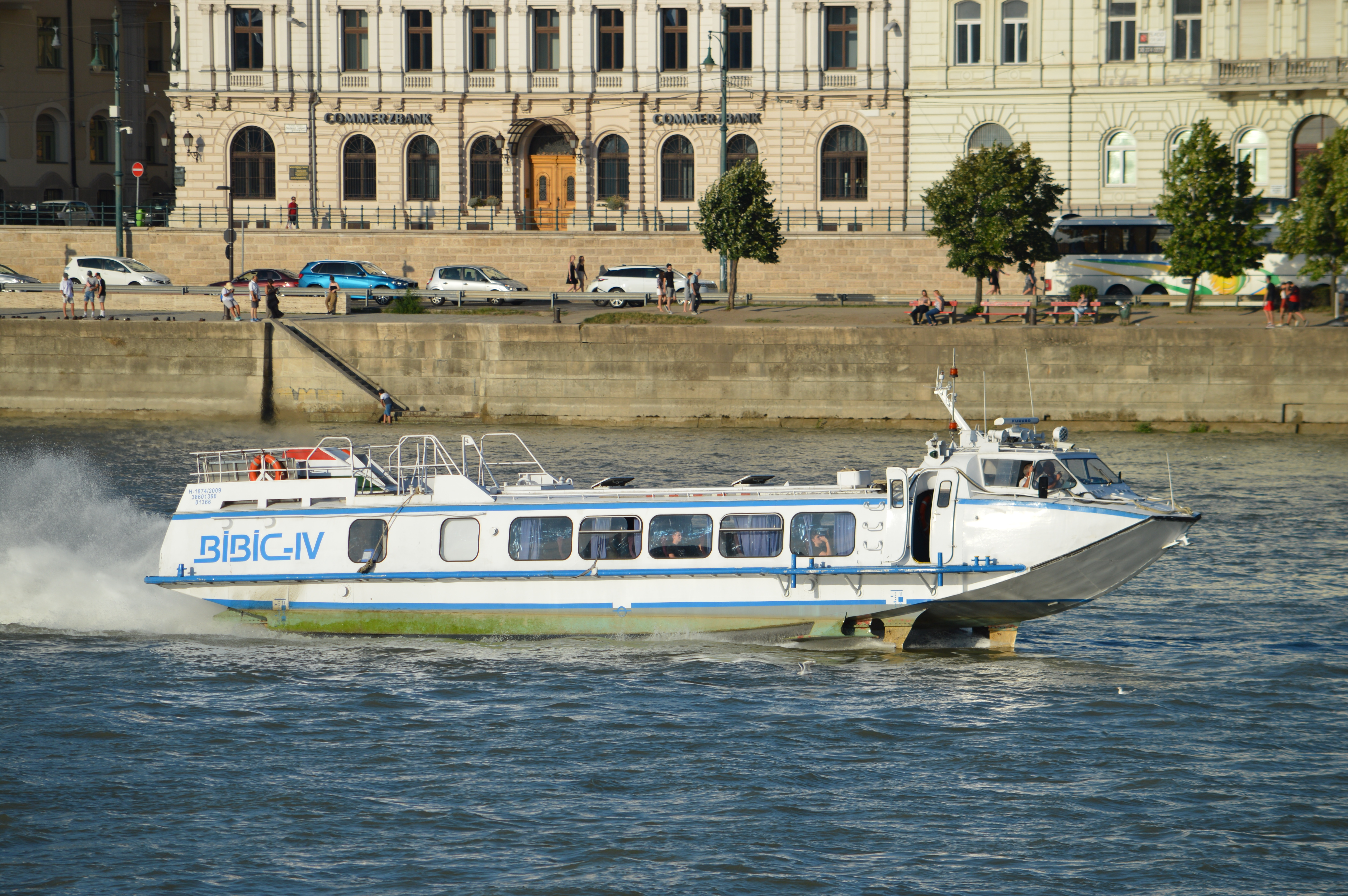 Bibic IV Polesye class hydrofoil on the Danube, Budapest, Hungary